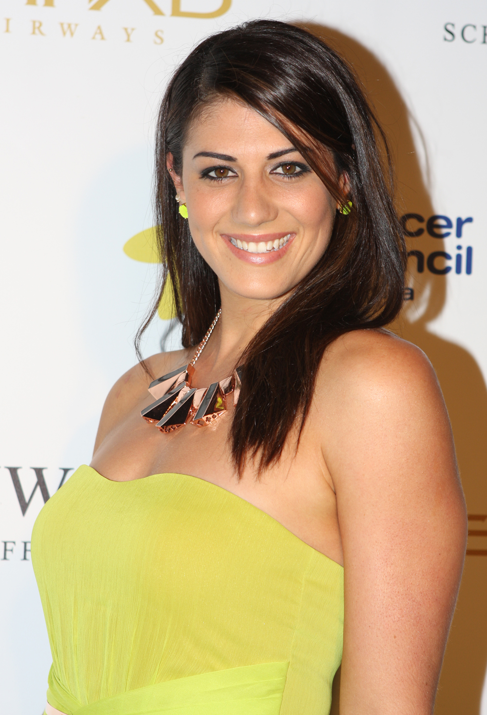 Stephanie Rice at The Emeralds & Ivy Ball in Sydney 2012 On Friday November 16, Ronan Keating and Cancer Council Australia will stage the Inaugural Emeralds and Ivy in Sydney at The Ivy Ballroom in Sydney. The glamorous black tie gala event will be hosted by Ronan Keating and The Morning Show's Kylie Gillies, and features a guest list that boasts a host of actors and entertainers, as well as fans and supporters of Cancer Council Australia. Guests will enjoy a spectacular three-course dinner in the stunning and intimate Ivy Ballroom and will be entertained by X Factor finalists, Vogue Williams and Ronan Keating. Funds raised through ticket sales and auction items on the night will go to the Cancer Council's Ronan Keating Fellowship. WHAT: CANCER COUNCIL'S WHEN: FRIDAY 16TH NOVEMBER 2012 WHERE THE IVY BALLROOM, LEVEL 1, 320 GEORGE STREET SYDNEY